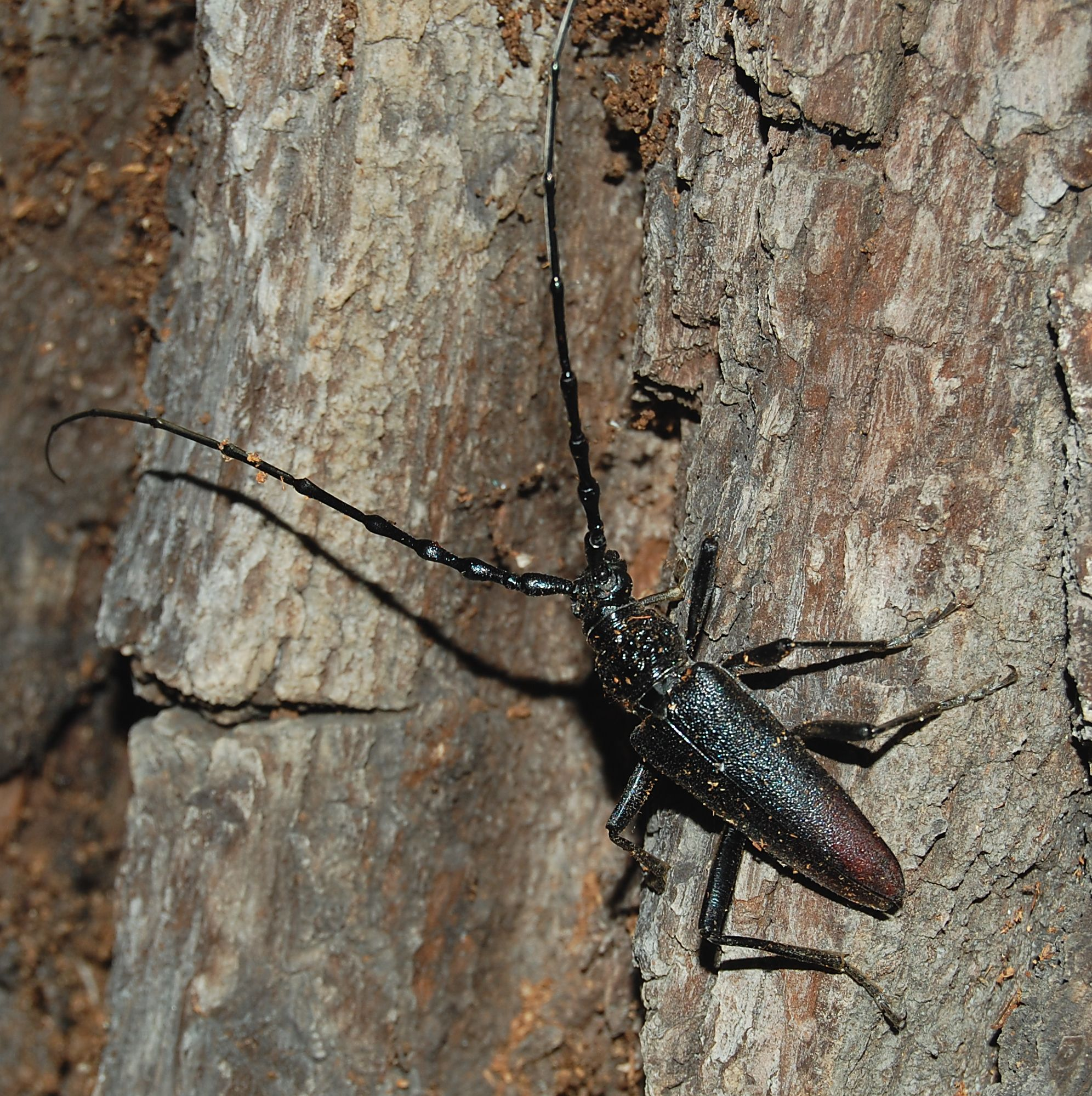 Cerambyx cerdo; male an old Oak. Berlin-Pankow